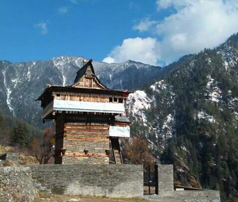 Dakreyi devta temple, Bamta